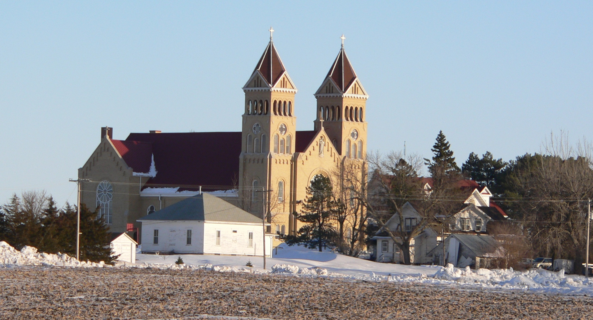 St. Bonaventure Church Complex in Raeville, Nebraska; seen from the northwest. The complex is listed in the National Register of Historic Places. Visible in the photo is the church, designed by architect Jacob M. Nachitigal in Romanesque Revival style and built in 1917-19. To its right, partly obscured behind an intervening house, is the rectory, built in the Colonial Revival style in 1920-23. A two-story brick parochial school located immediately north of the church is apparently no longer in existence. The one-story white building in front of the church is the former public school building, no longer in use; it is not a part of the complex and is not included in the NRHS listing. The complex also includes a parish hall, west of the church and not visible in this photo.